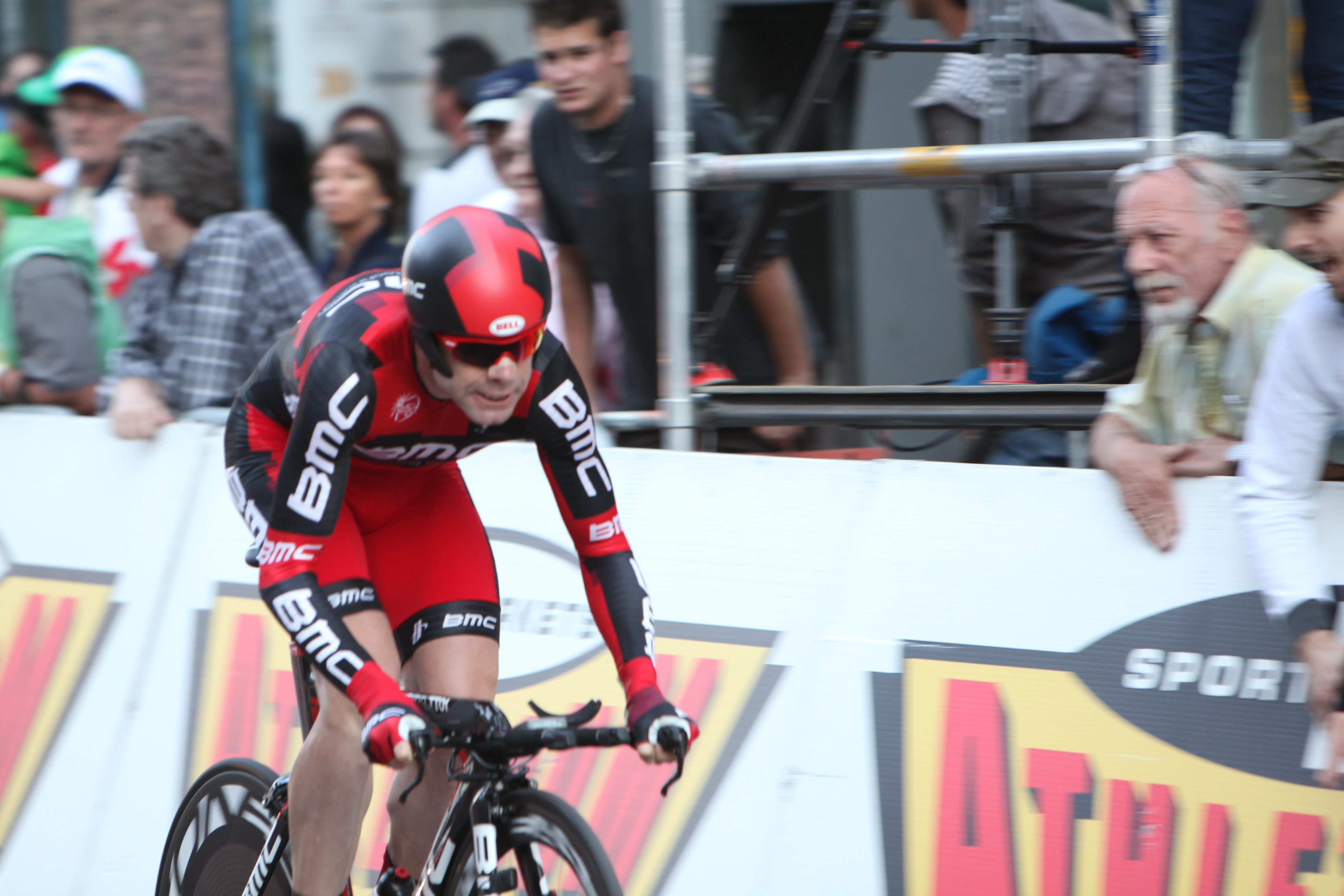 Cadel Evans at the prologue of the Tour de Romandie 2011